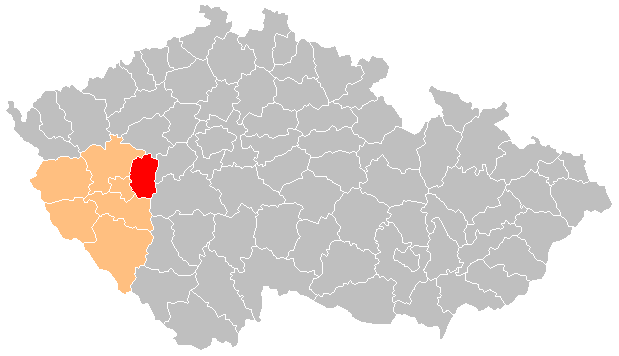 Rokycany District within Plzen Region. Current borders of districts since January 1, 2007.